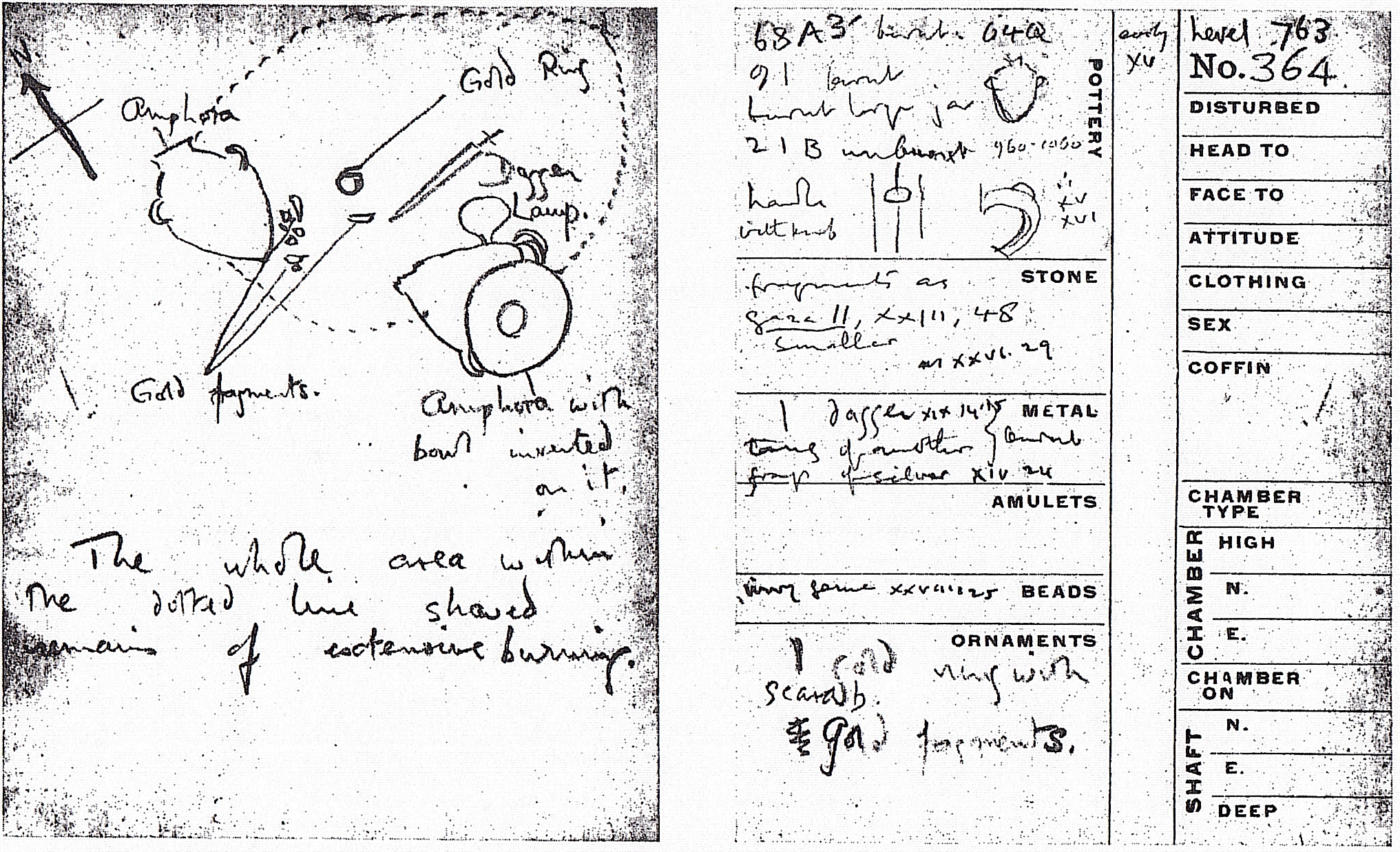 Flinders Petrie - Tell el- 'Ajjul excavations - Tomb Card c. 1933